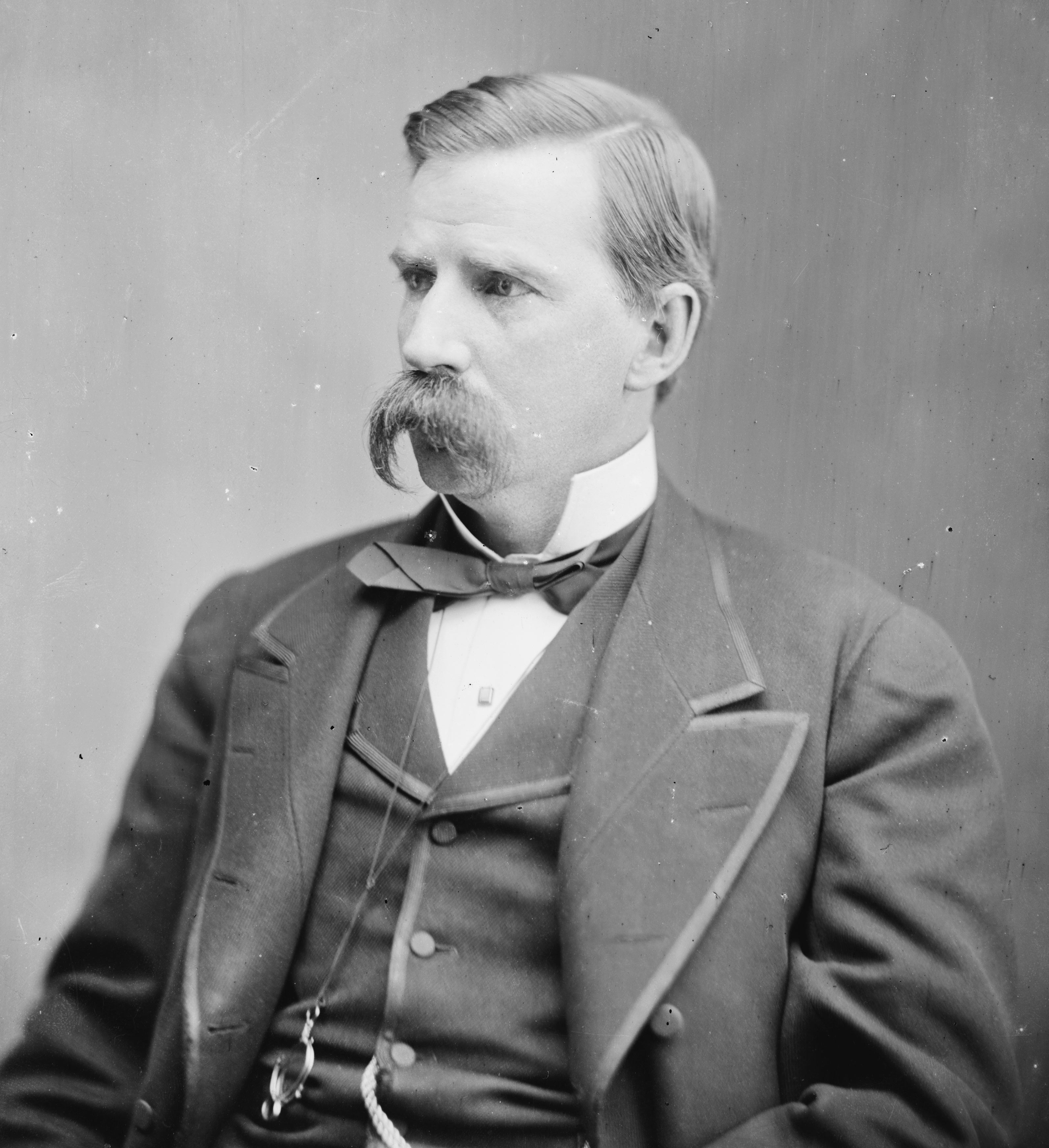 J. Donald Cameron, former Secretary of War of the United States.